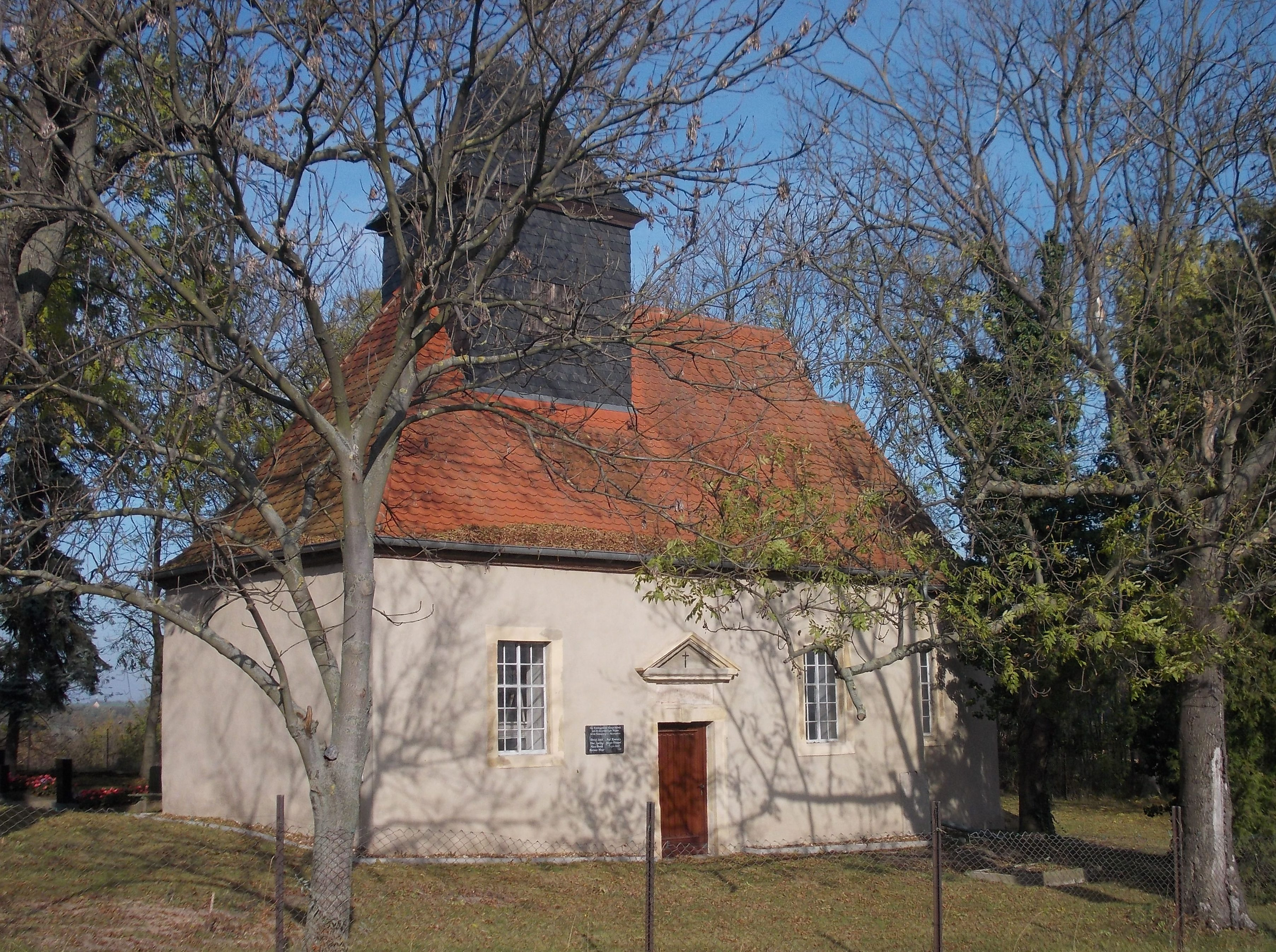 Krimpe church (Salzatal, district: Saalekreis, Saxony-Anhalt)